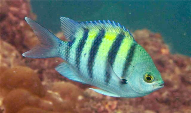 Abudefduf vaigiensis photographed in the Persian gulf (Iran).